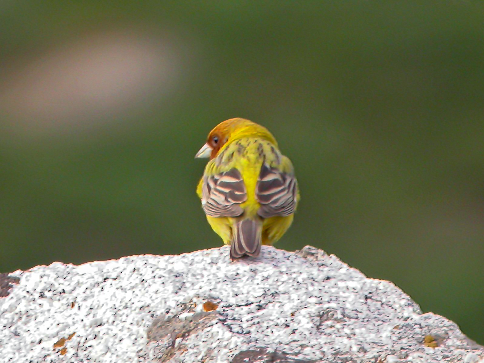 Red-headed Bunting (Emberiza bruniceps)